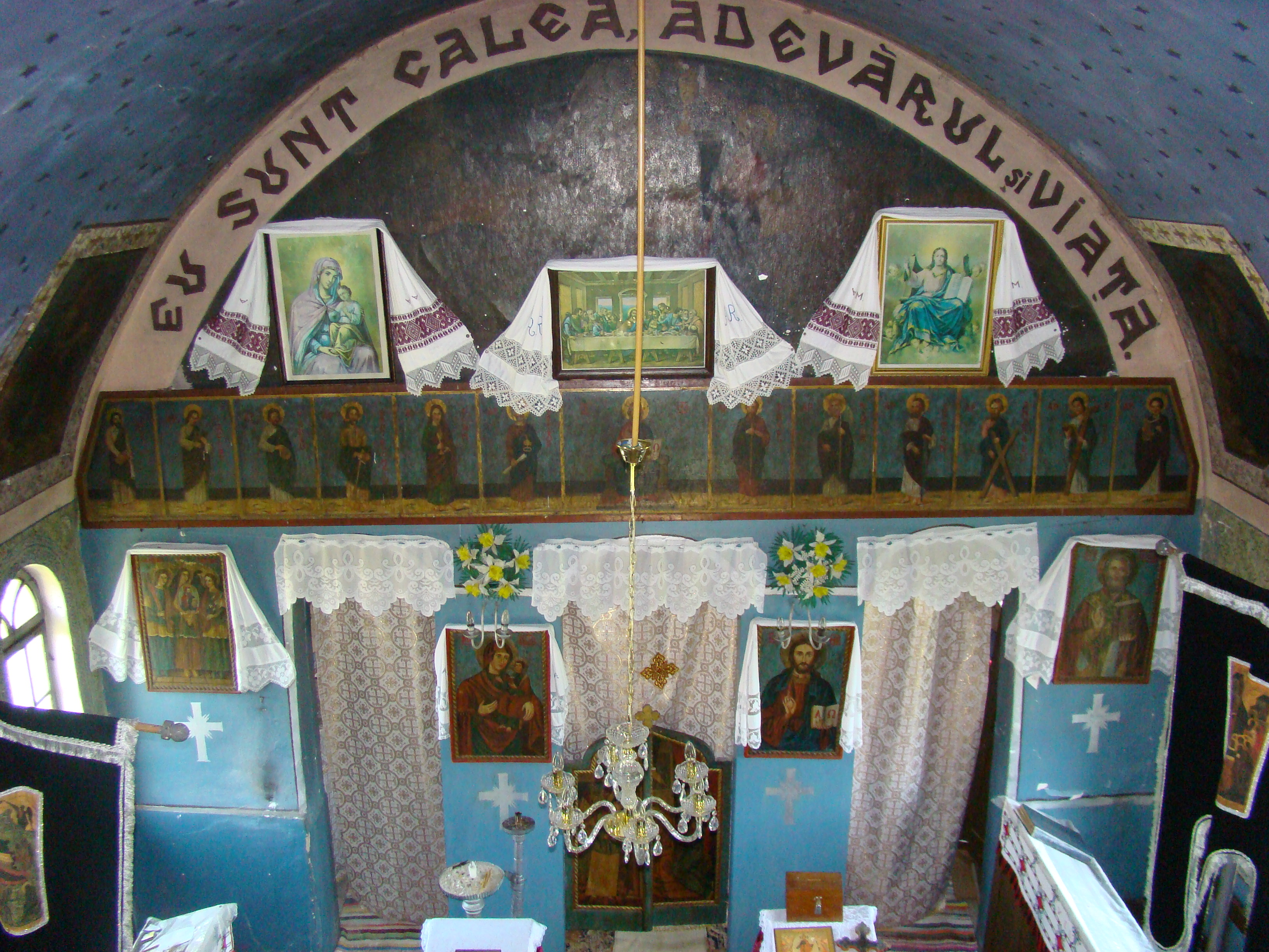 The wooden church in Stoboru, Sălaj county, Romania